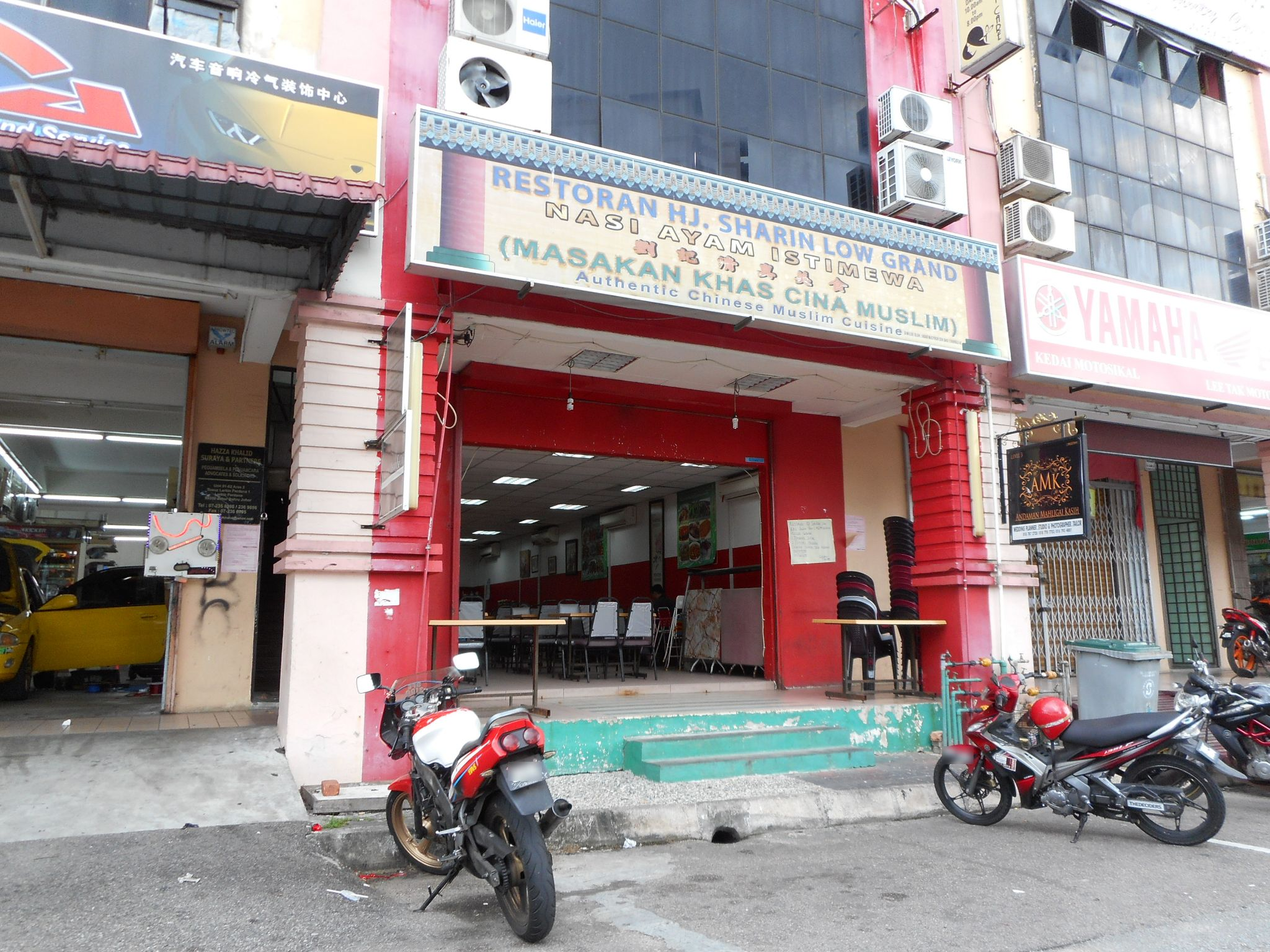 Hj. Sharin Low Grand Restaurant, Larkin, Johor Bahru, Johor, Malaysia